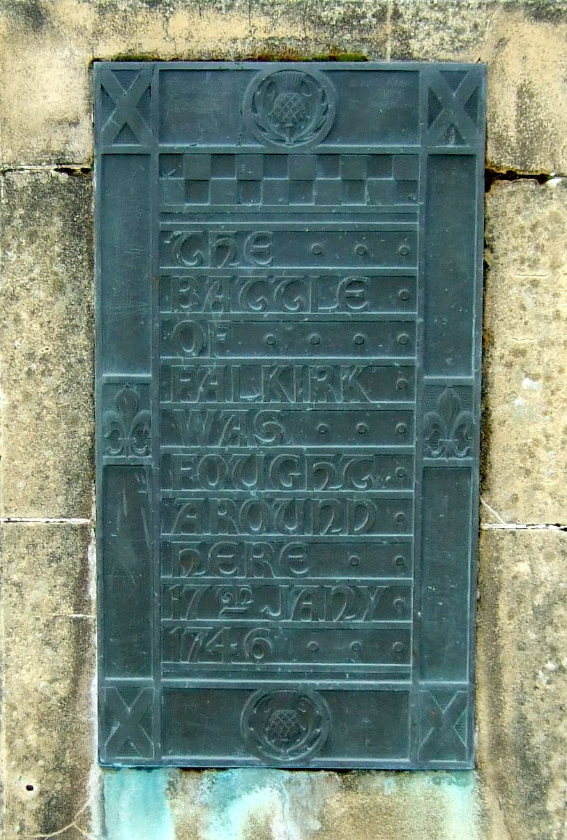 Plaque on the Monument to the Battle of Falkirk